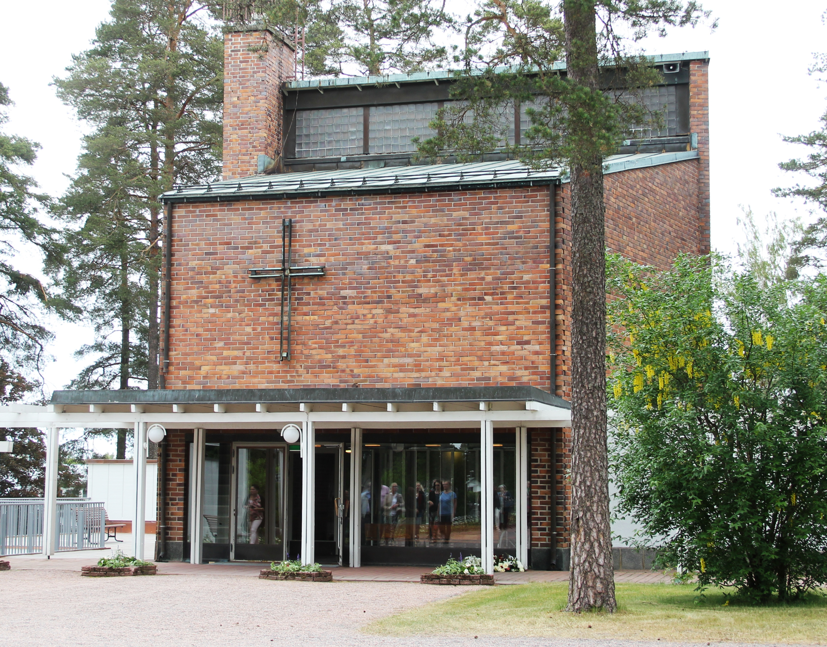 Cemetery chapel in Karis, Raseborg